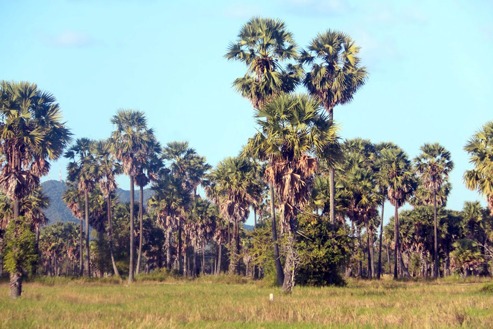 Cambodian Palm Tree in Rural Kampong Chhnang Province. No body cares about collecting their leaves anymore as they are all happy with plastic and metal materials.